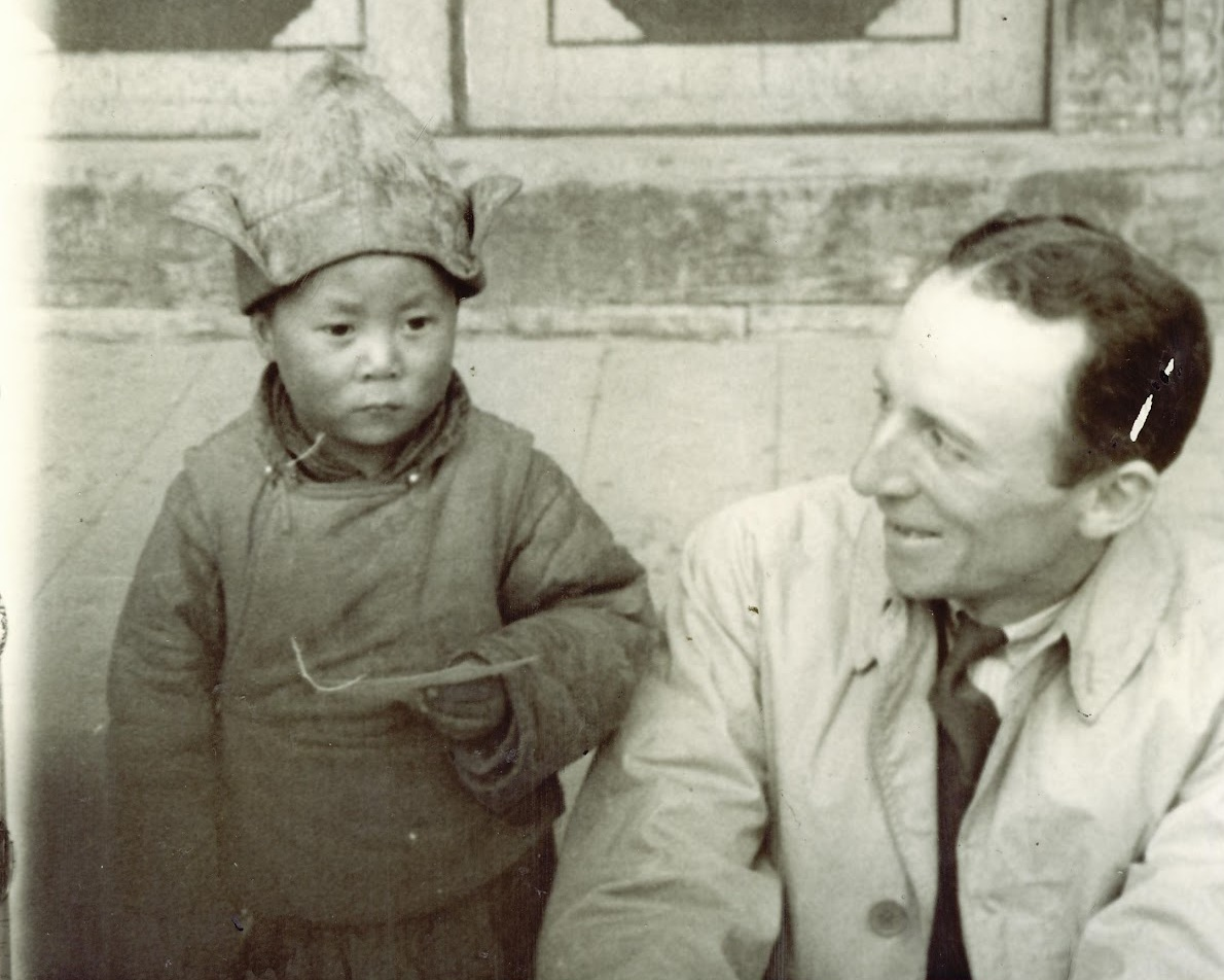 Dalai Lama and A.T. Steele.